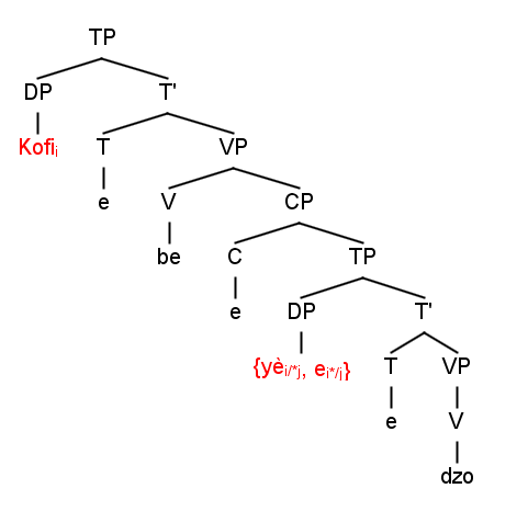 Tree diagram for the Ewe sentence, 'Kofi said s/he left.'